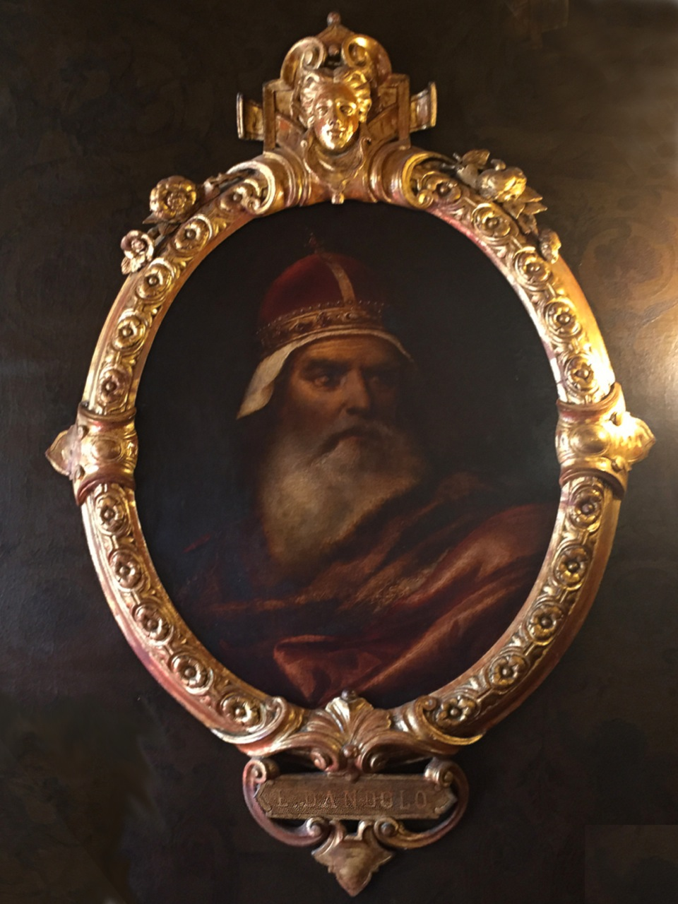 Caffè Florian is a coffee house situated in the Procuratie Nuove of Piazza San Marco, The Sala degli Uomini Illustri (Hall of the Illustrious Men) was decorated by Giulio Carlini with paintings of ten notable Venetians: Goldoni, Marco Polo, Titian, Francesco Morosini, Pietro Orseolo, Andrea Palladio, Benedetto Marcello, Paolo Sarpi, Vettor Pisani and Enrico Dandolo.